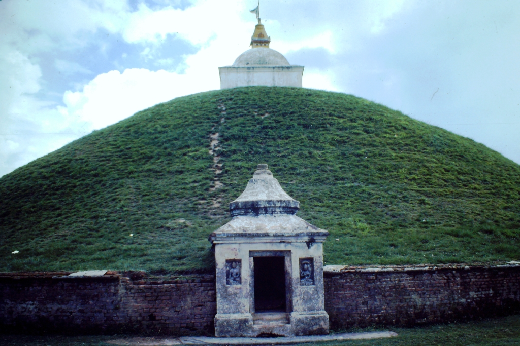 I took this photo on a trip to Nepal in 1979